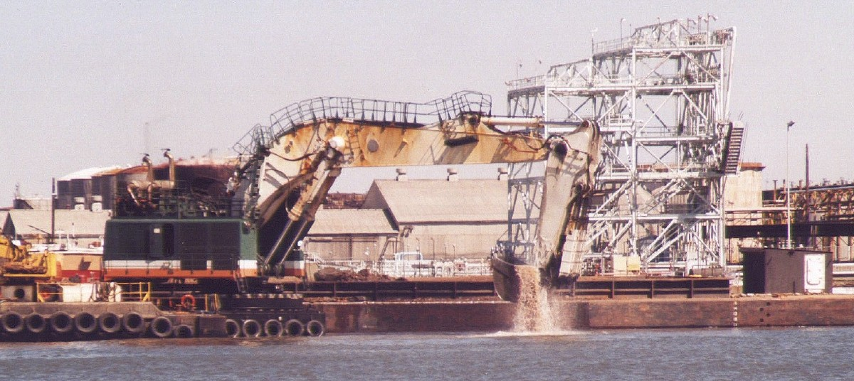 Deepening the Kill Van Kull channel to 50 feet. An Army Corps of Engineer dredge brings up debris from bedrock broken up first by dynamite.